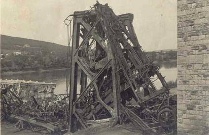 Mangled remains of the railway bridge connecting Zalishchyky and Kostryzhivka following the Zalishchyky Tragedy.